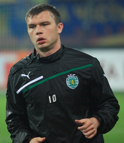 Marat Izmailov